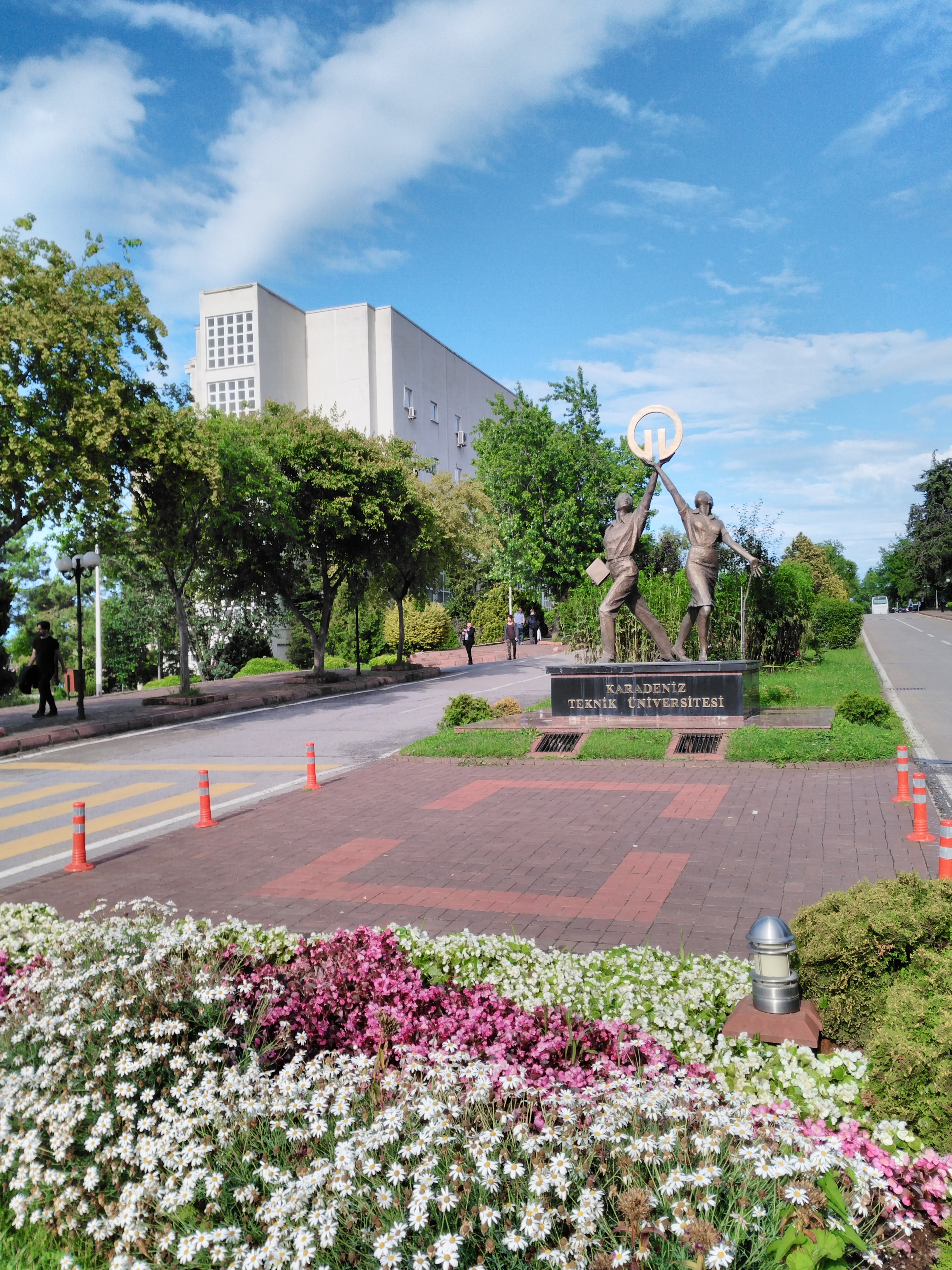 Karadeniz Technical University Српски (ћирилица): Технички универзитет на Црном мору (Трабзон, Турска).